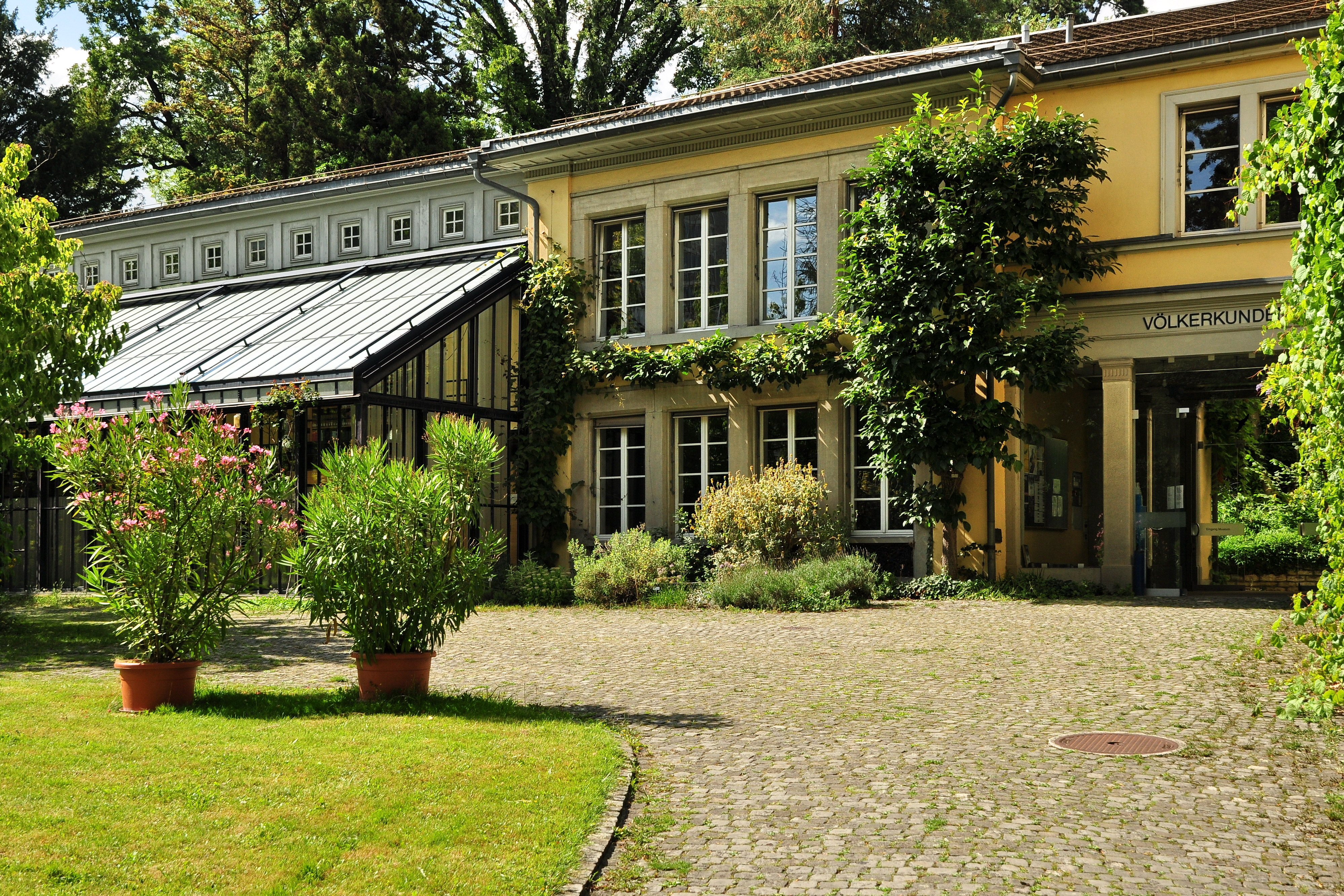 Zürich, Switzerland : Botanical Garden «zur Katz» and Völkerkundemuseum (Museum of Ethnology), University of Zürich.